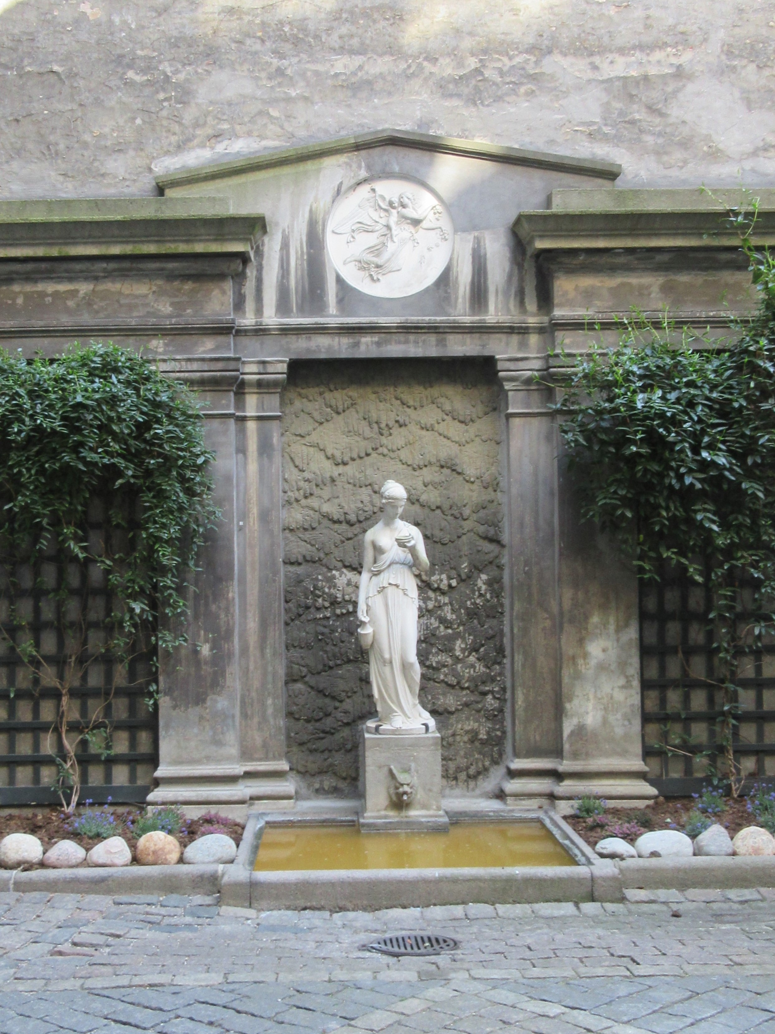 Water feature with antique sculpture in the courtyard of Ny Vestergade 1 in Copenhagen, Denmark